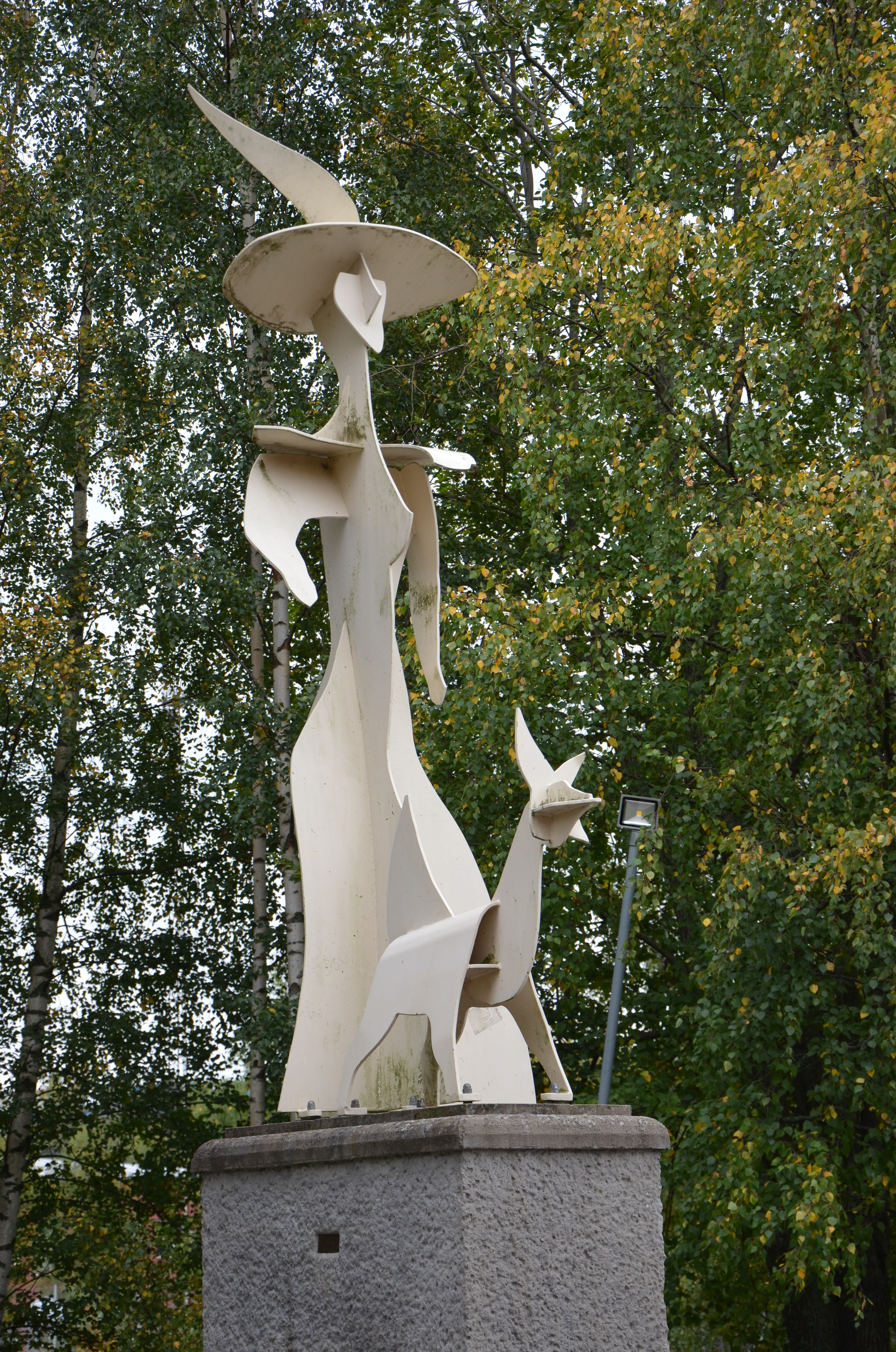 Rolando Perez Damen med hunden, Flemingsberg i Huddinge kommun